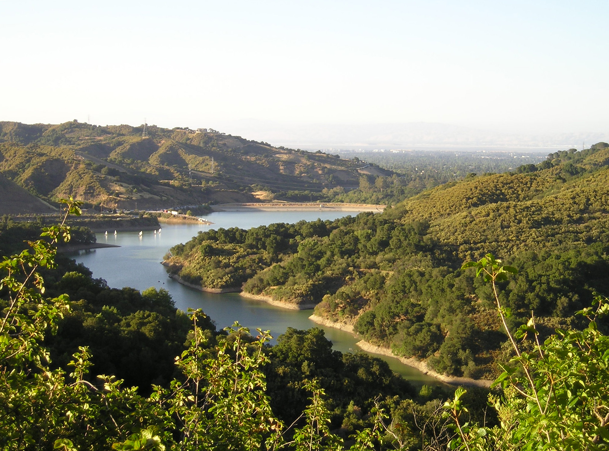 Stevens Creek Reservoir from the Zinfandel Trail in Picchetti Ranch Open Space Preserve. Preserve is part of the Midpeninsula Regional Open Space District system.